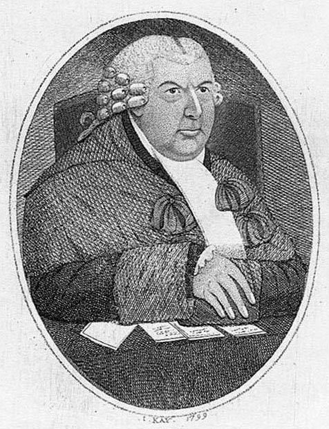 Etching of Lord Balmuto by John Kay